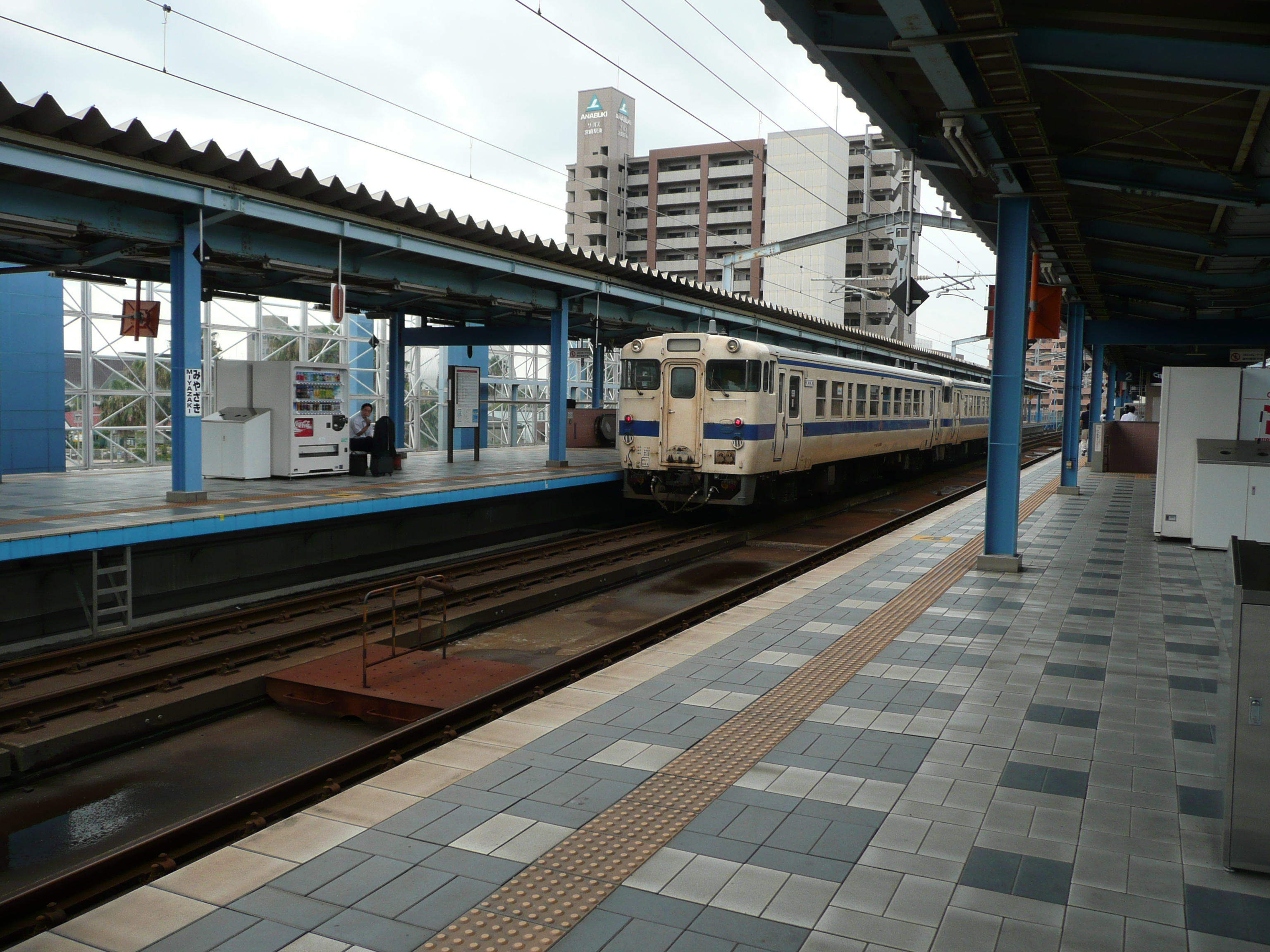 宮崎駅のホーム